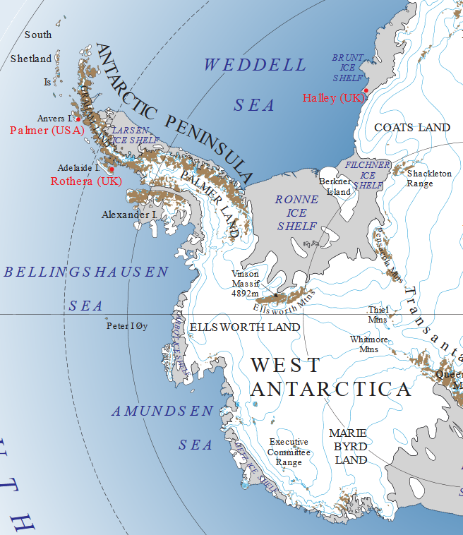 Map section of West Antarctica taken from a larger map by NASA